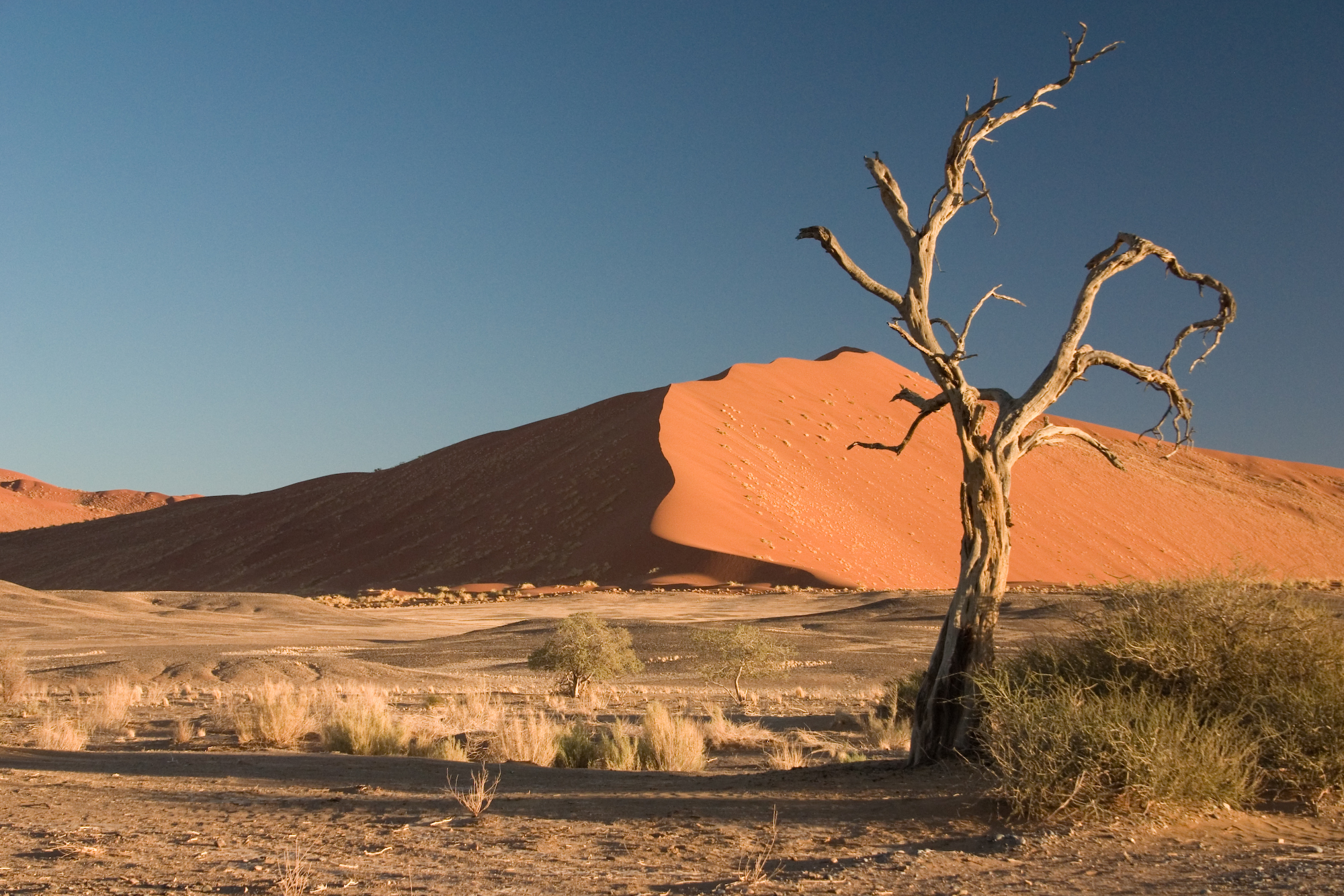 Camel Thorn Tree (Acacia erioloba) in Sossusvlei region, Namib-Naukluft National Park, Namib Desert, Namibia.